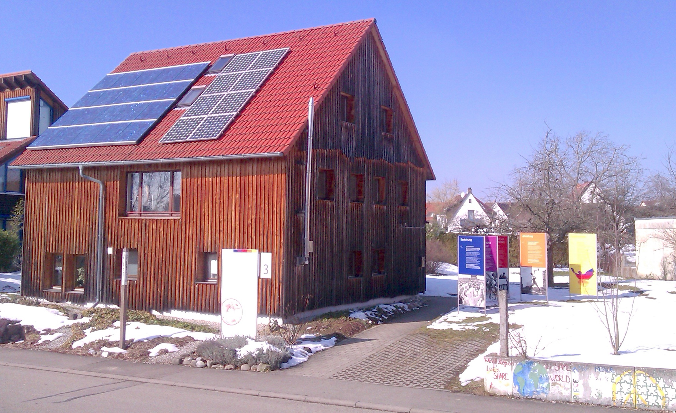 Mutlangen Pressehütte (“press cabin”) peace activism centre, 2013